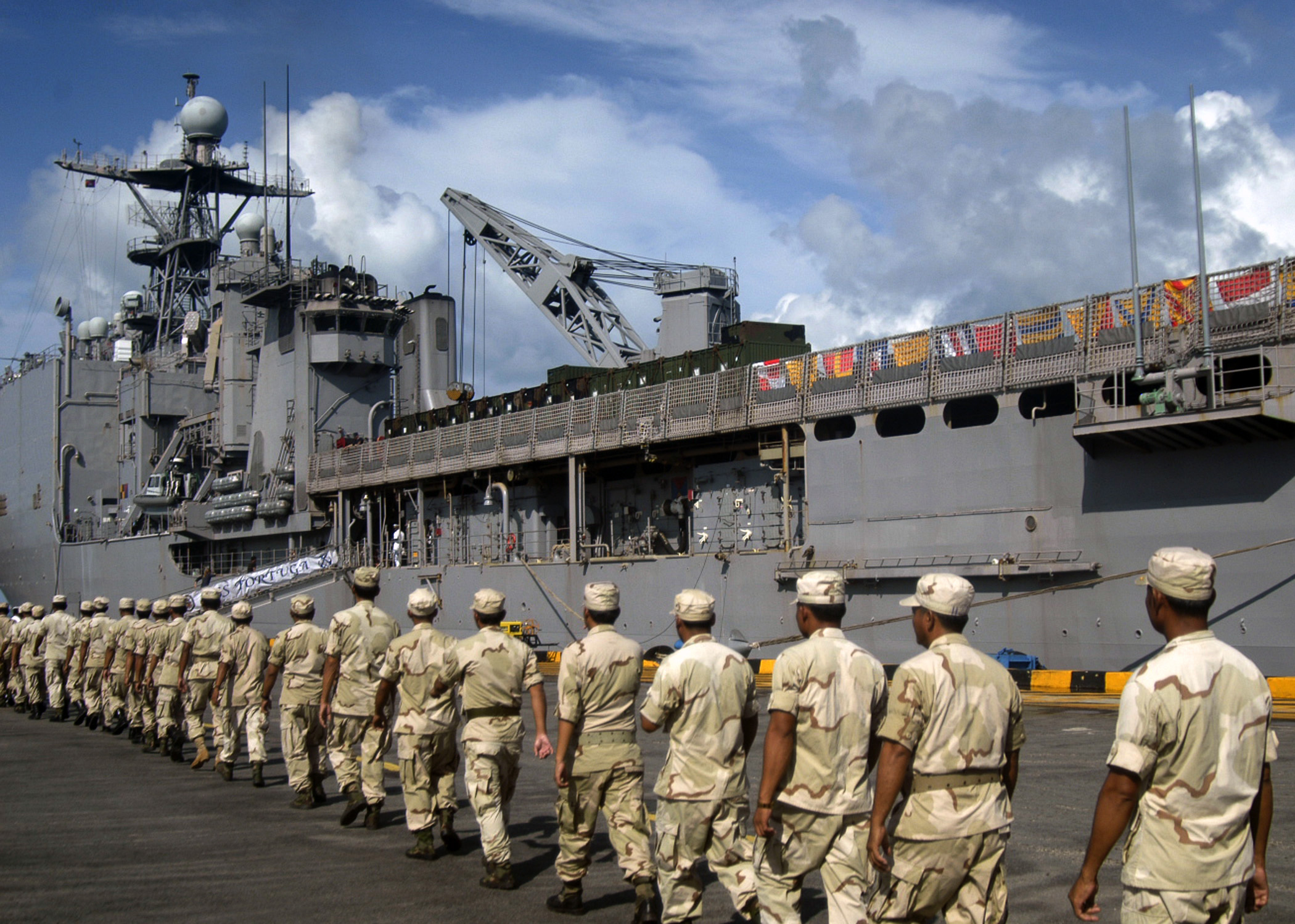 SIHANOUKVILLE, Cambodia (June 7, 2010) Royal Cambodian Marines embark aboard the amphibious dock landing ship USS Tortuga (LSD 46) to attend opening ceremonies for the first of two Cambodian phases of Cooperation Afloat Readiness and Training (CARAT) 2010. CARAT is a series of bilateral exercises held annually in Southeast Asia to strengthen relationships and enhance force readiness. (U.S. Navy photo by Mass Communication Specialist 2nd Class Jason Tross/Released)